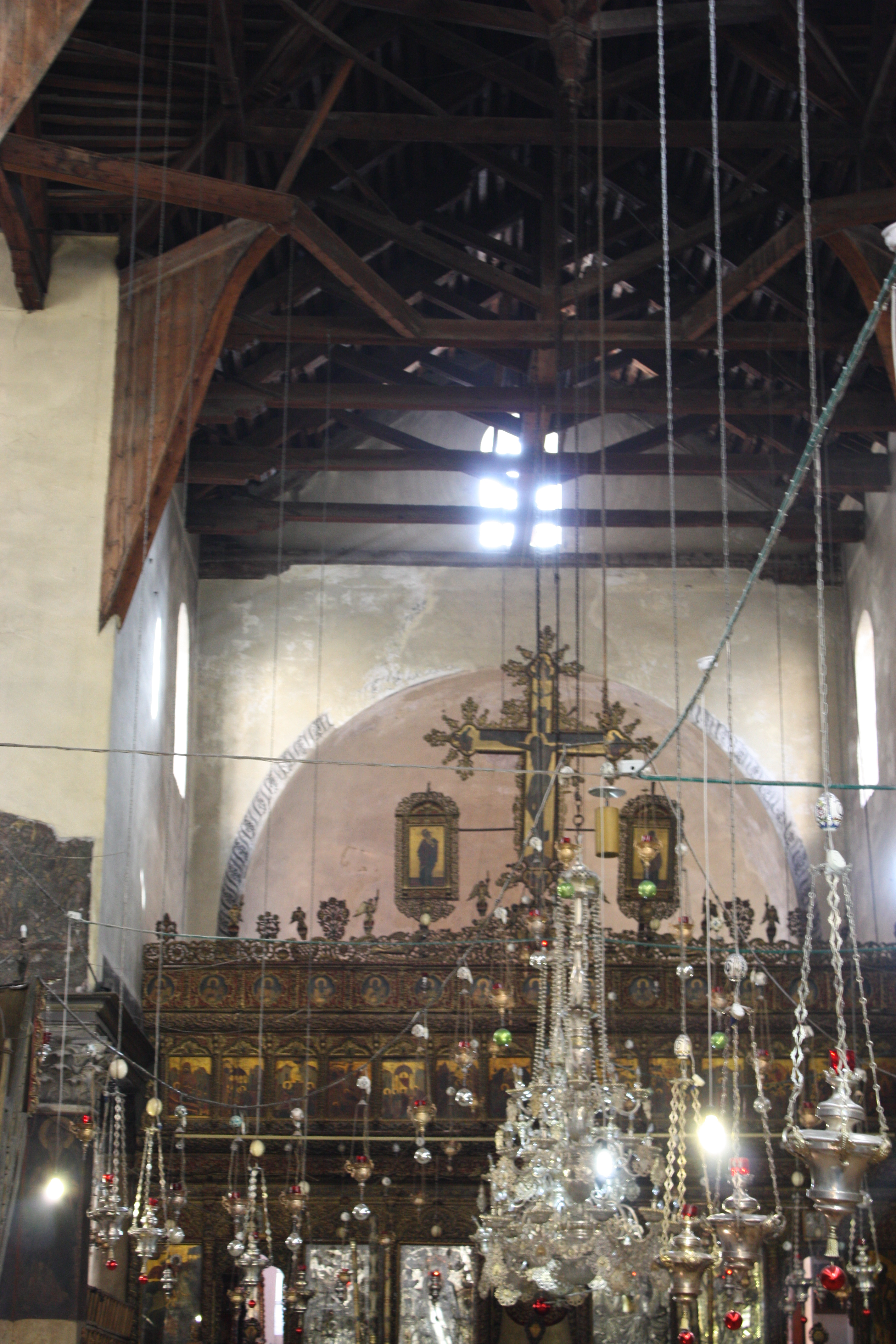 Interior of the Church of the Nativity.